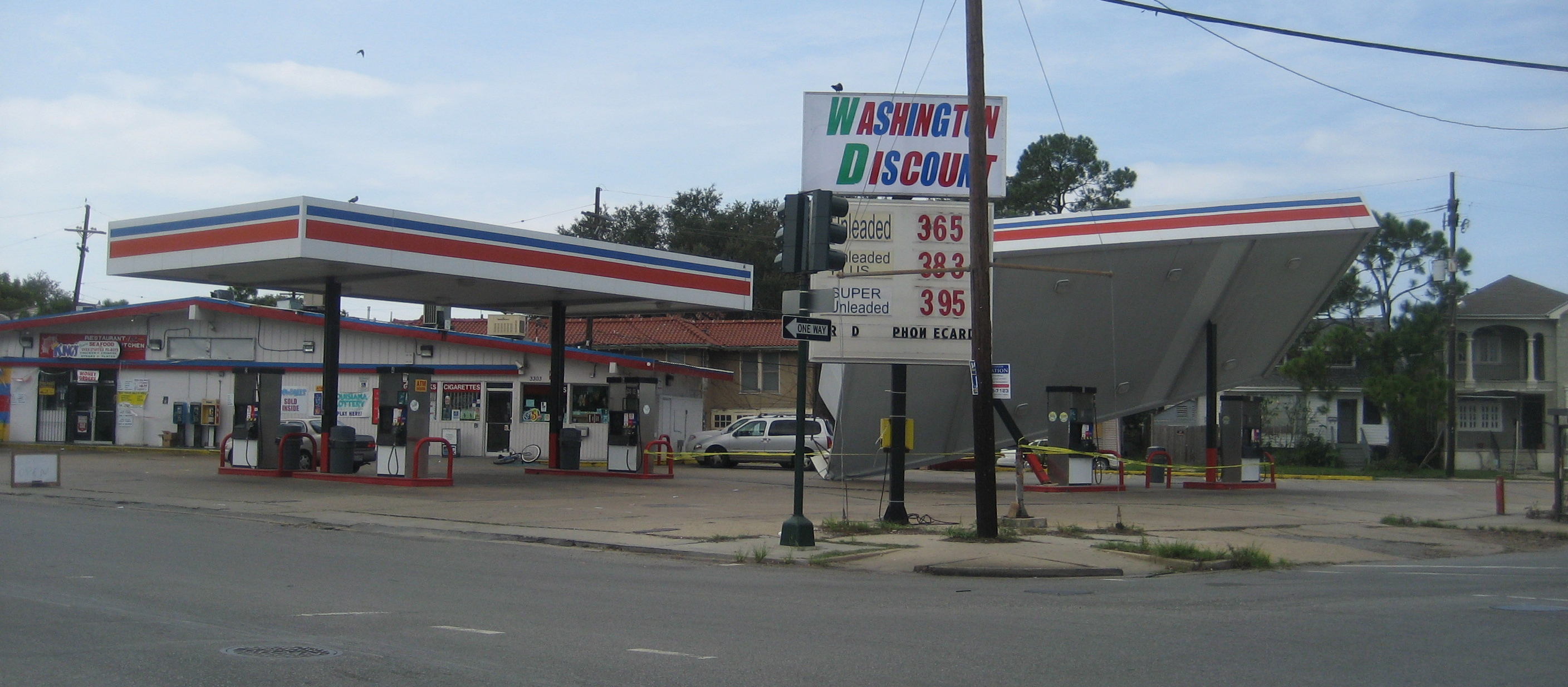 New Orleans: Gas station with wind damage from Hurricane Gustav. (Uptown lake corner of Washington Avenue and Broad Avenue.)